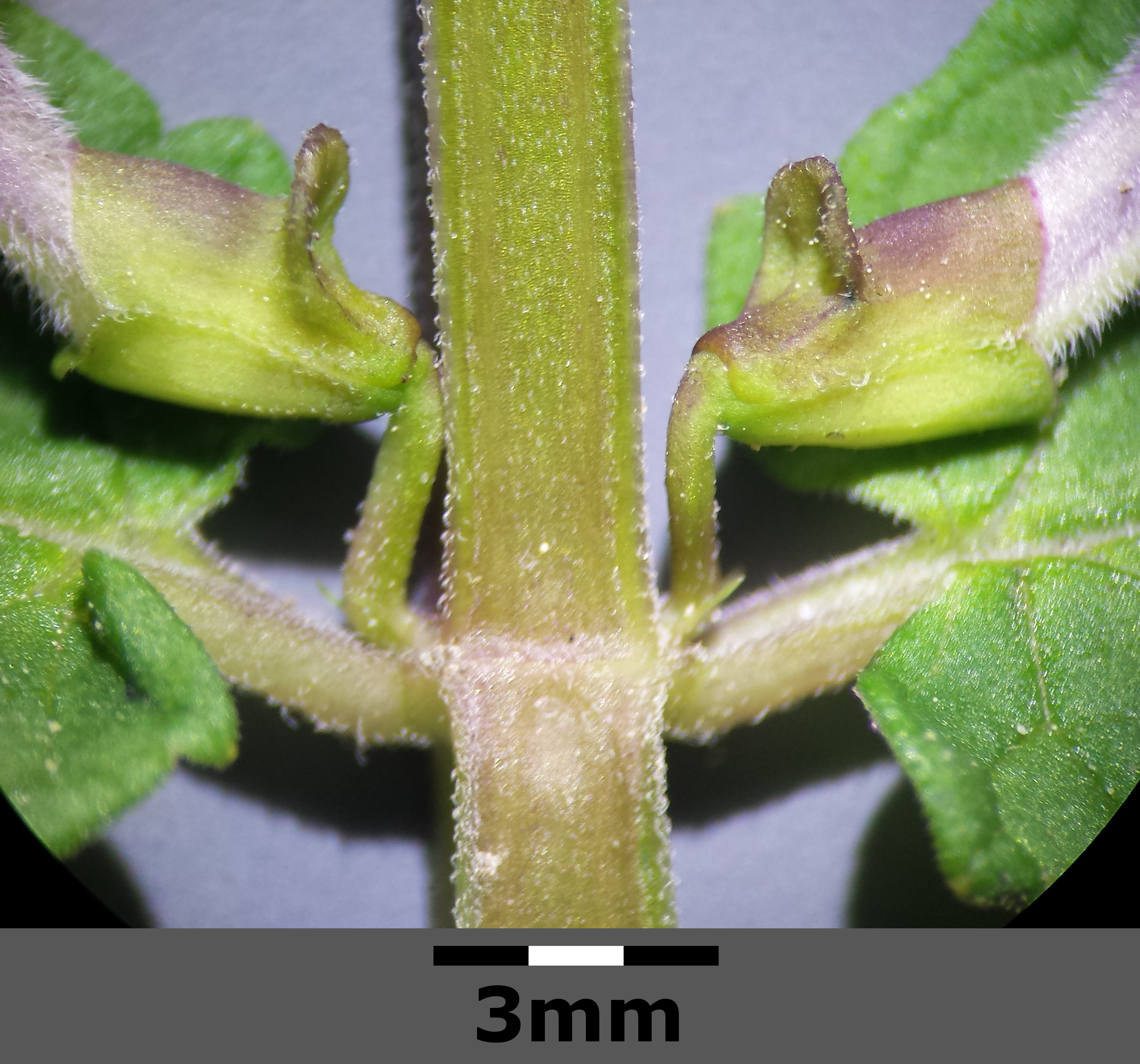 Calyx Taxonym: Scutellaria galericulata ss Fischer et al. EfÖLS 2008 ISBN 978-3-85474-187-9 Location: Danube shore, Vienna-Leopoldstadt - ca. 160 m a.s.l. Habitat: shore